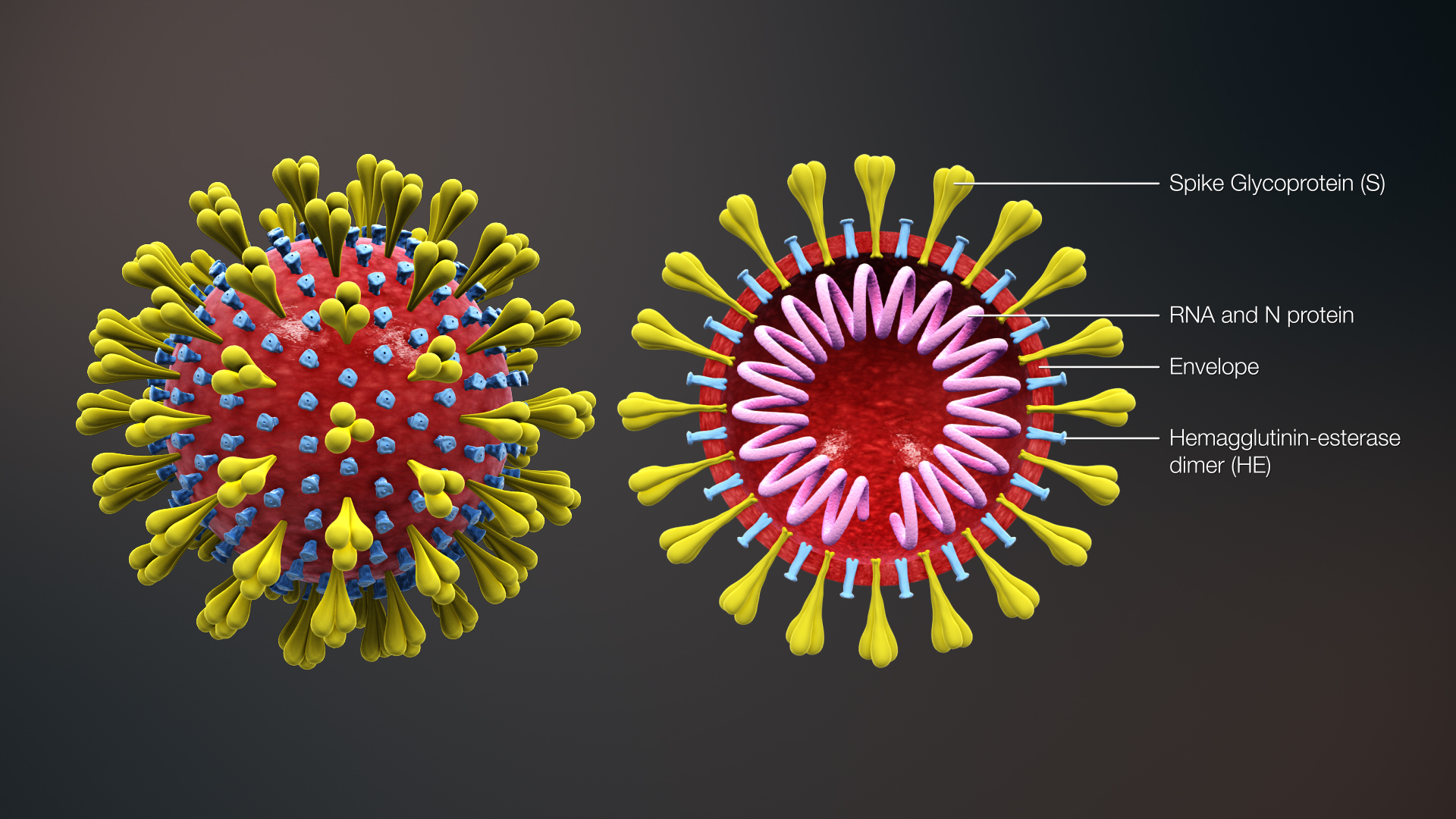 Images combined from a 3D medical animation, depicting the shape of coronavirus as well as the cross-sectional view. Image shows the major elements including the Spike S protein, HE protein, viral envelope, and helical RNA